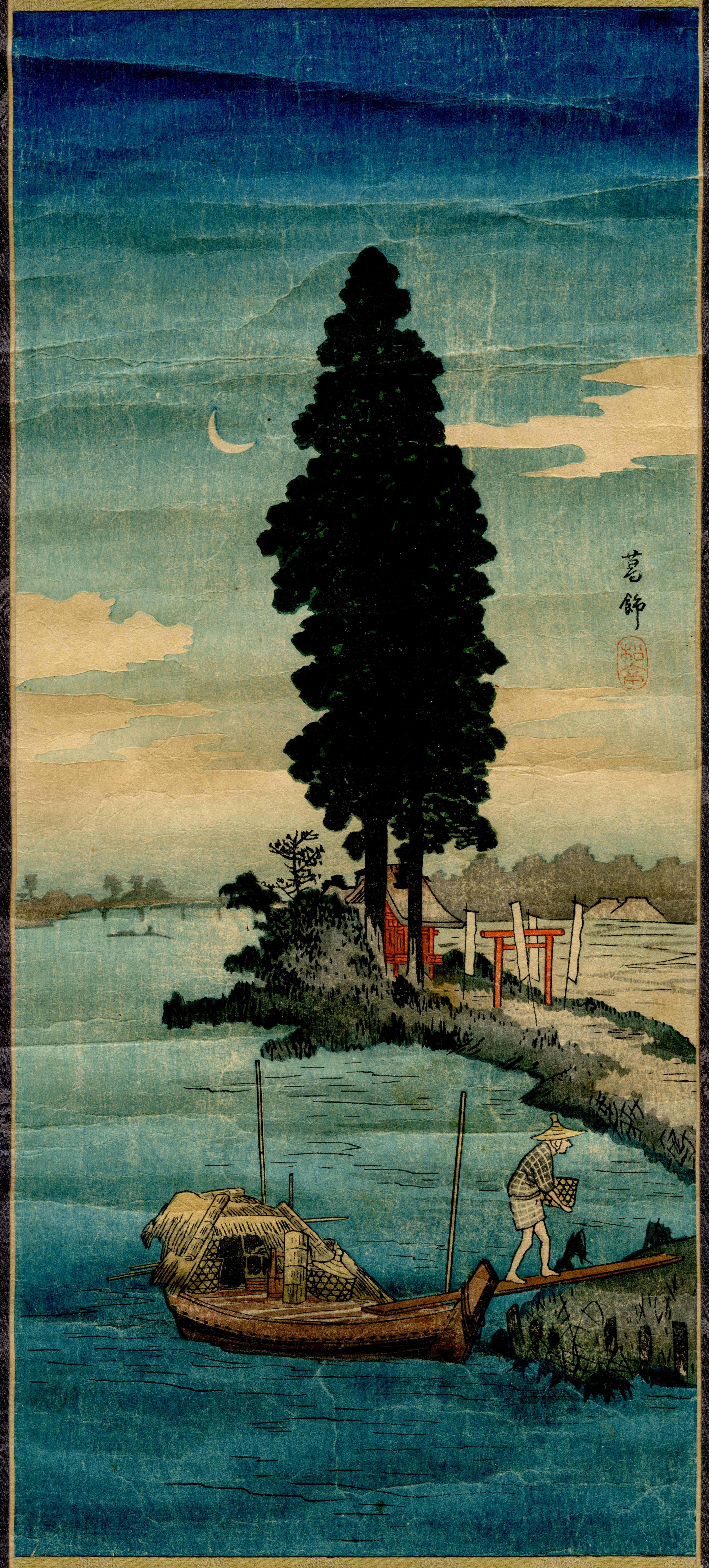 Katsushika shing hanga wood block print by Takahashi Shotei